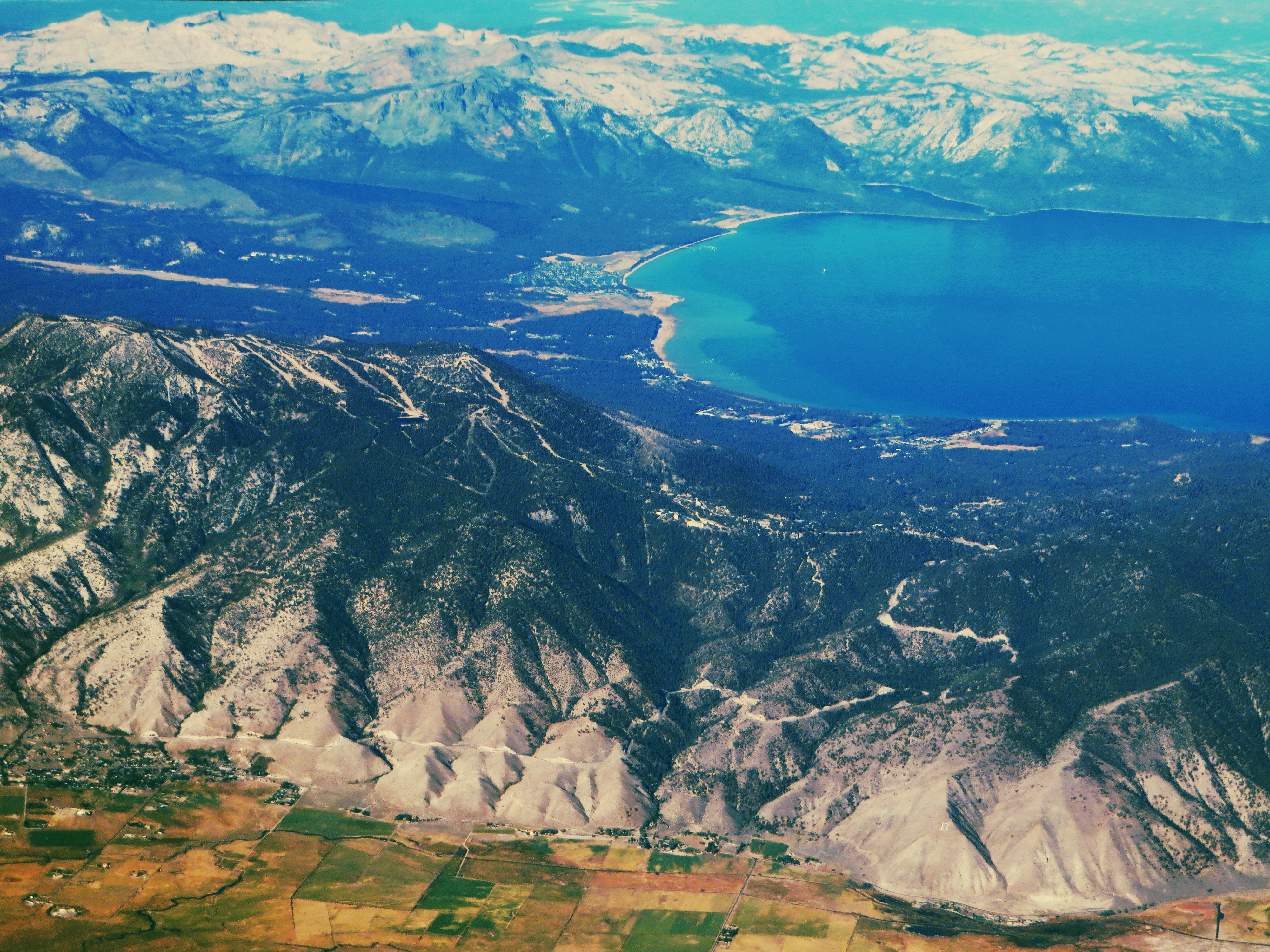 South Lake Tahoe is the most populous city in El Dorado County, California, United States, in the Sierra Nevada. The population was 21,403 at the 2010 census, down from 23,609 at the 2000 census. As its name suggests, the city is located on the southern shore of Lake Tahoe. The east end of the city, on the California-Nevada state line right next to the town of Stateline, Nevada, is mainly geared towards tourism, with T-shirt shops, restaurants, hotels, and Heavenly Mountain Resort with the Nevada casinos just across the state line in Stateline, Nevada. The city extends about 5 miles (8 km) west-southwest along U.S. Route 50, also known as Lake Tahoe Boulevard. The western end of town is mainly residential, and clusters around "The Y" (new intersection October 2008), the X-shaped intersection of US 50, State Route 89, and the continuation of Lake Tahoe Boulevard after it loses its federal highway designation. The city incorporated in 1965 by combining the previously unincorporated communities of Al Tahoe, Bijou, Bijou Park, Stateline, Tahoe Valley, and Tallac Village. A post office was established in 1967. In 1991, Jaycee Lee Dugard (age 11 at the time) was abducted from a bus stop in South Lake Tahoe; she was found alive in Antioch, California in 2009. Gambling arrived at the Lake in 1944, when Harvey's Wagon Wheel Saloon and Gambling Hall opened as one of the area's first gaming establishments (technically on the Nevada side of the state border in the South Lake Tahoe (Nevada gaming area). But competition soon sprang up and so did the need for more permanent accommodations. By the 1950s, roads began to be plowed year-round, enabling access to permanent residences. When the 1960 Winter Olympics came to Squaw Valley, Lake Tahoe was put firmly on the map as the skiing center of the western United States.